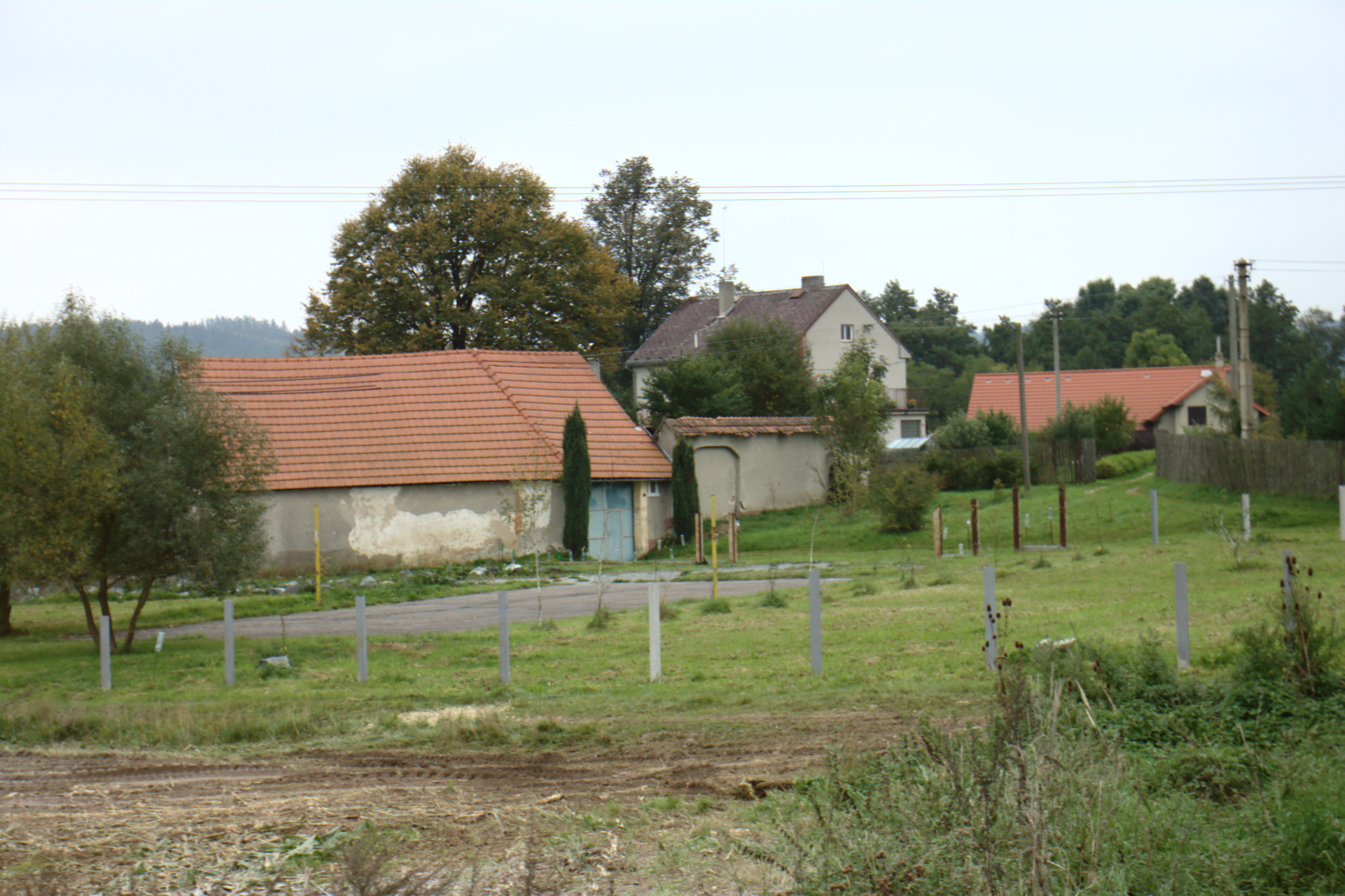 Buildings at the northern edge of the town of Vestec near Zvěstov, Central Bohemia, CZ